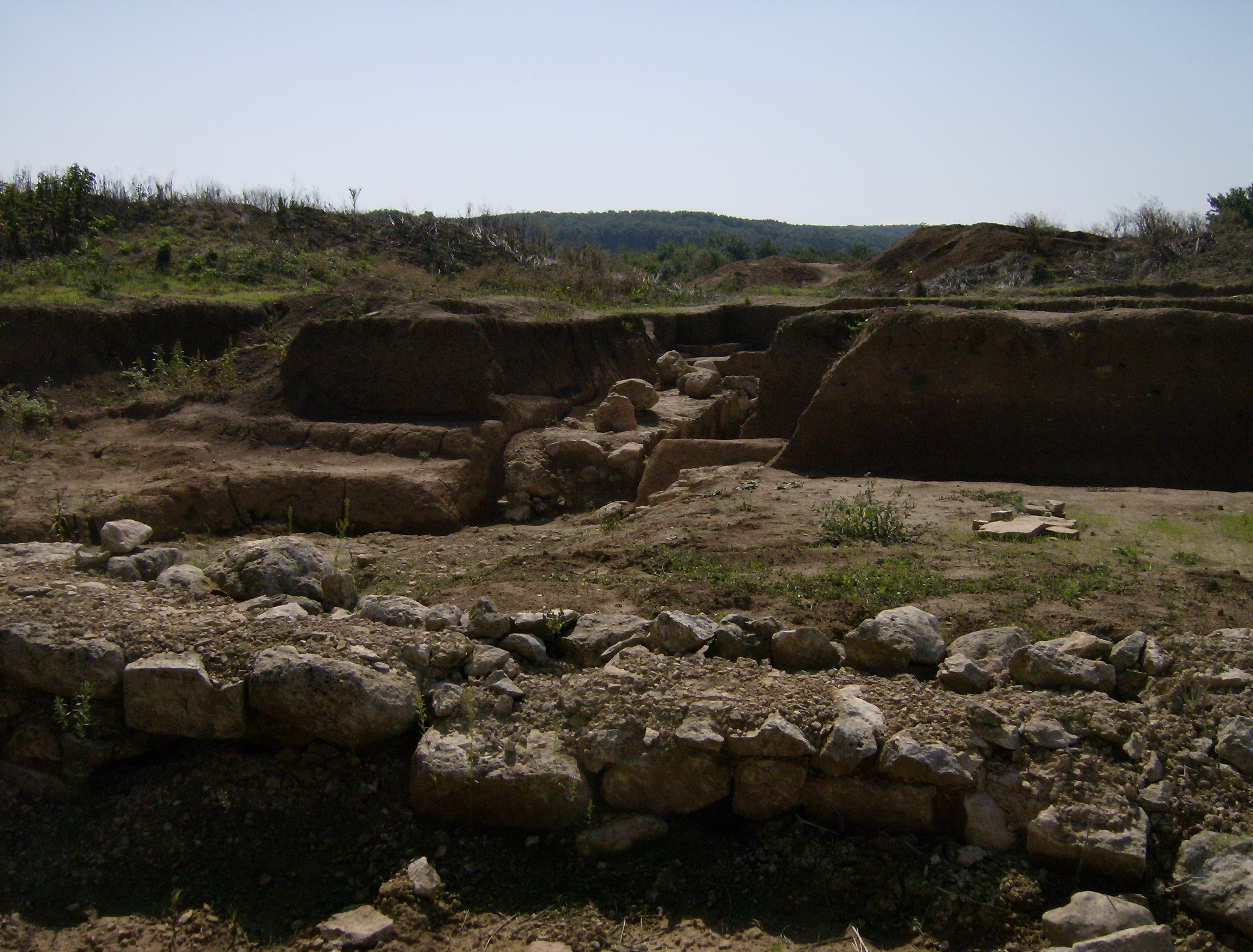 Fortress of Khan Omurtag